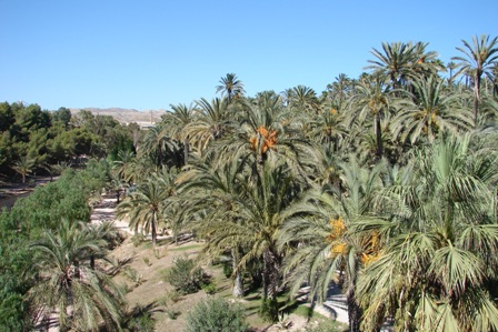 El Huerto del Cura, Elche. Palm forest in the centre of the town.